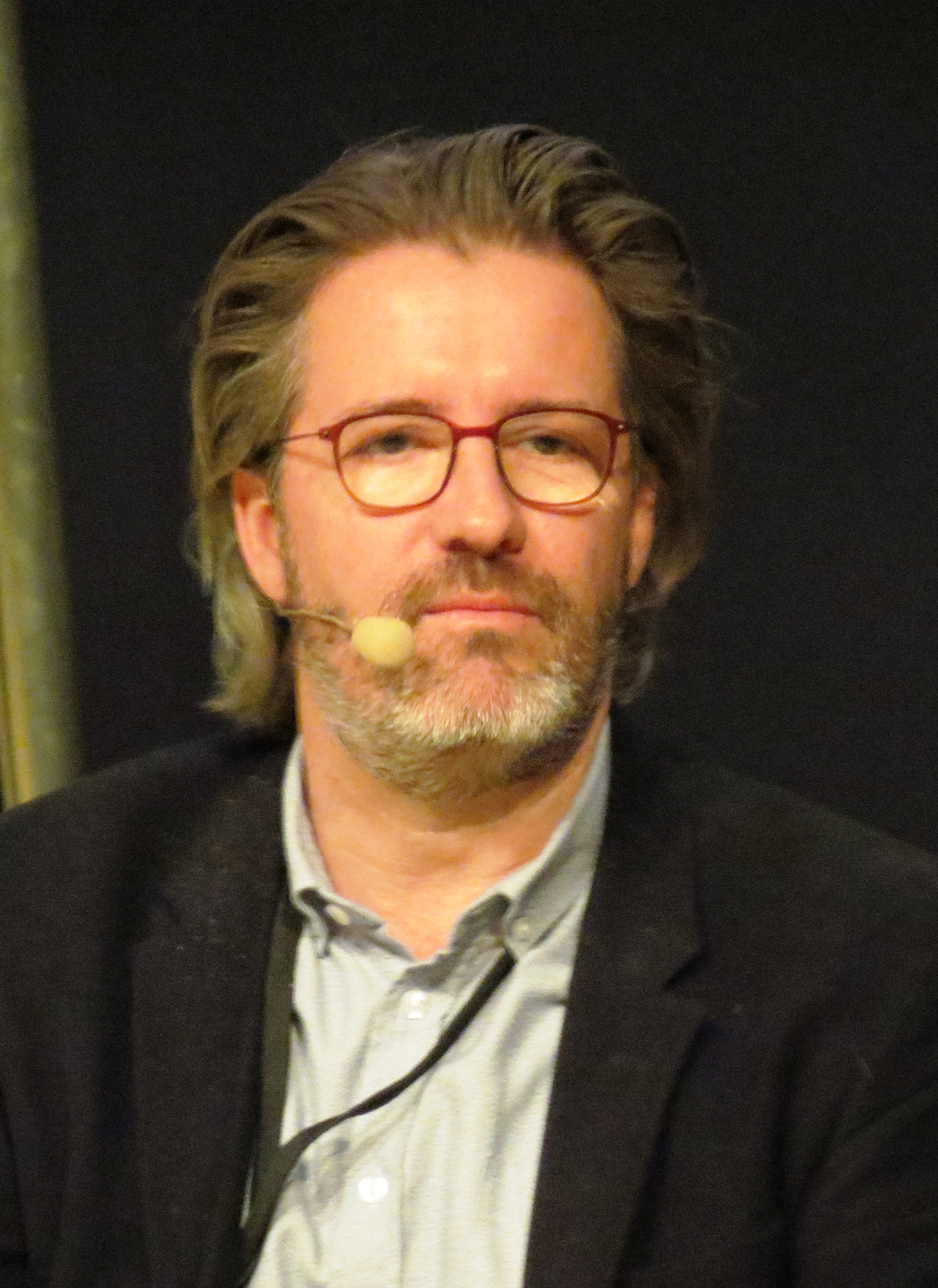 Olafur Eliasson, adjunct professor at Alle School of Fine Arts and Design in Addis Abeba.